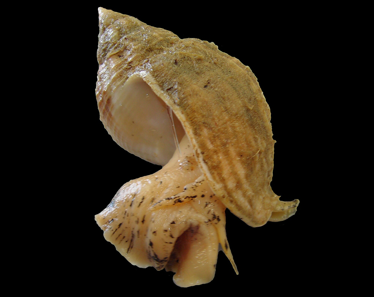 Common whelk from the Belgian continental shelf.Studio image.